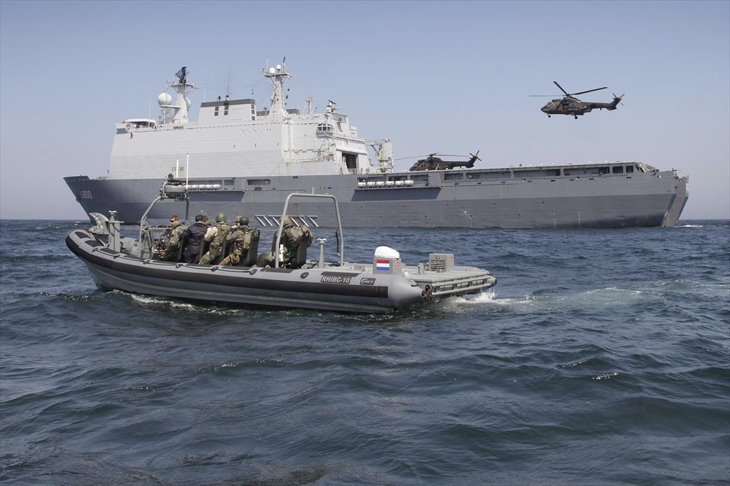 HNLMS Rotterdam (L800) with FRISC and Cougars